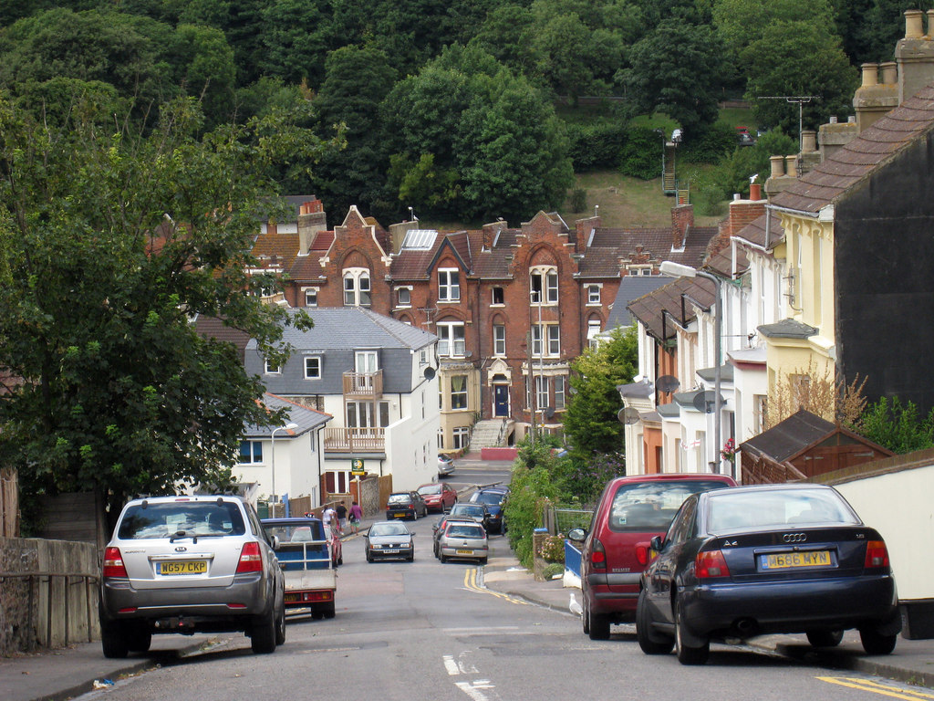 Malvern Rise, near to Dover, Kent, Great Britain. A short hill between Clarendon Road and Clarendon Rise junction down to London Road.